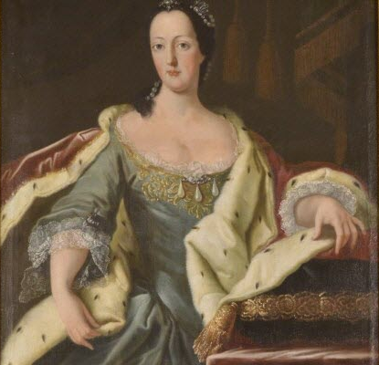 Princess Anne Charlotte of Lorraine (1714-1773), Abbess of Remiremont